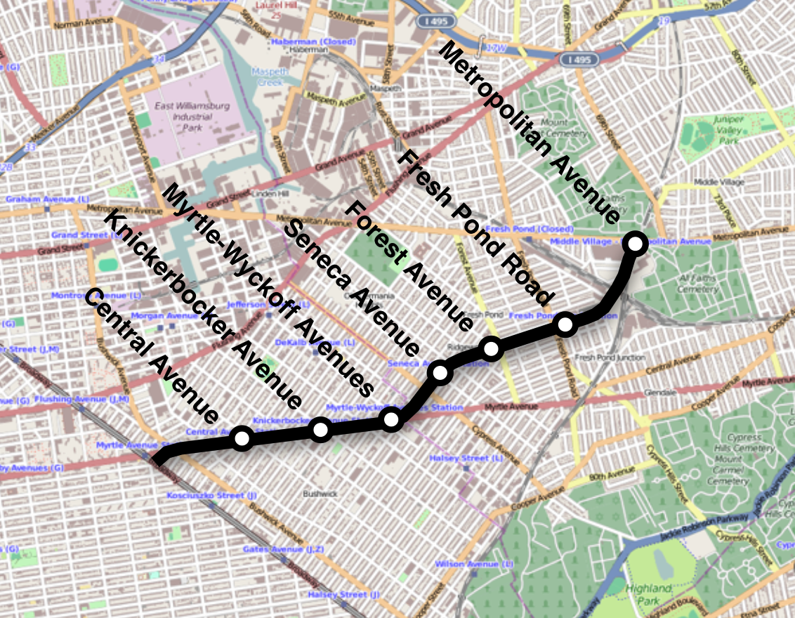 BMT Myrtle Avenue Line map